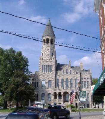 Front of the Washington County Courthouse, located on Public Square in downtown Salem, Indiana, United States. Built in 1886, the courthouse is listed on the National Register of Historic Places, and it is located within the bounds of the Register-listed Salem Downtown Historic District.